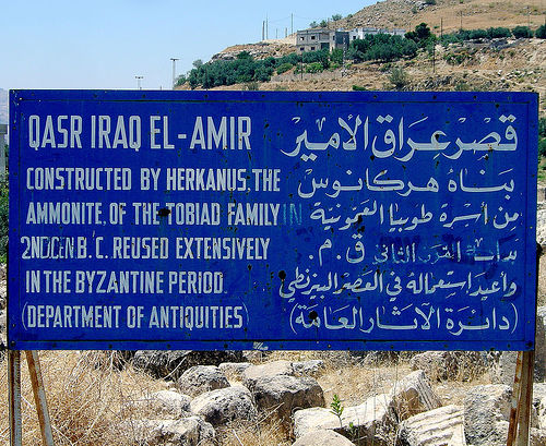 Picture of Qasr Al-Abd Sign (Iraq El-Amir). Misspells "Hyrcanus". - Taken in May 2005 by myself. Uploaded for use under GFDL.